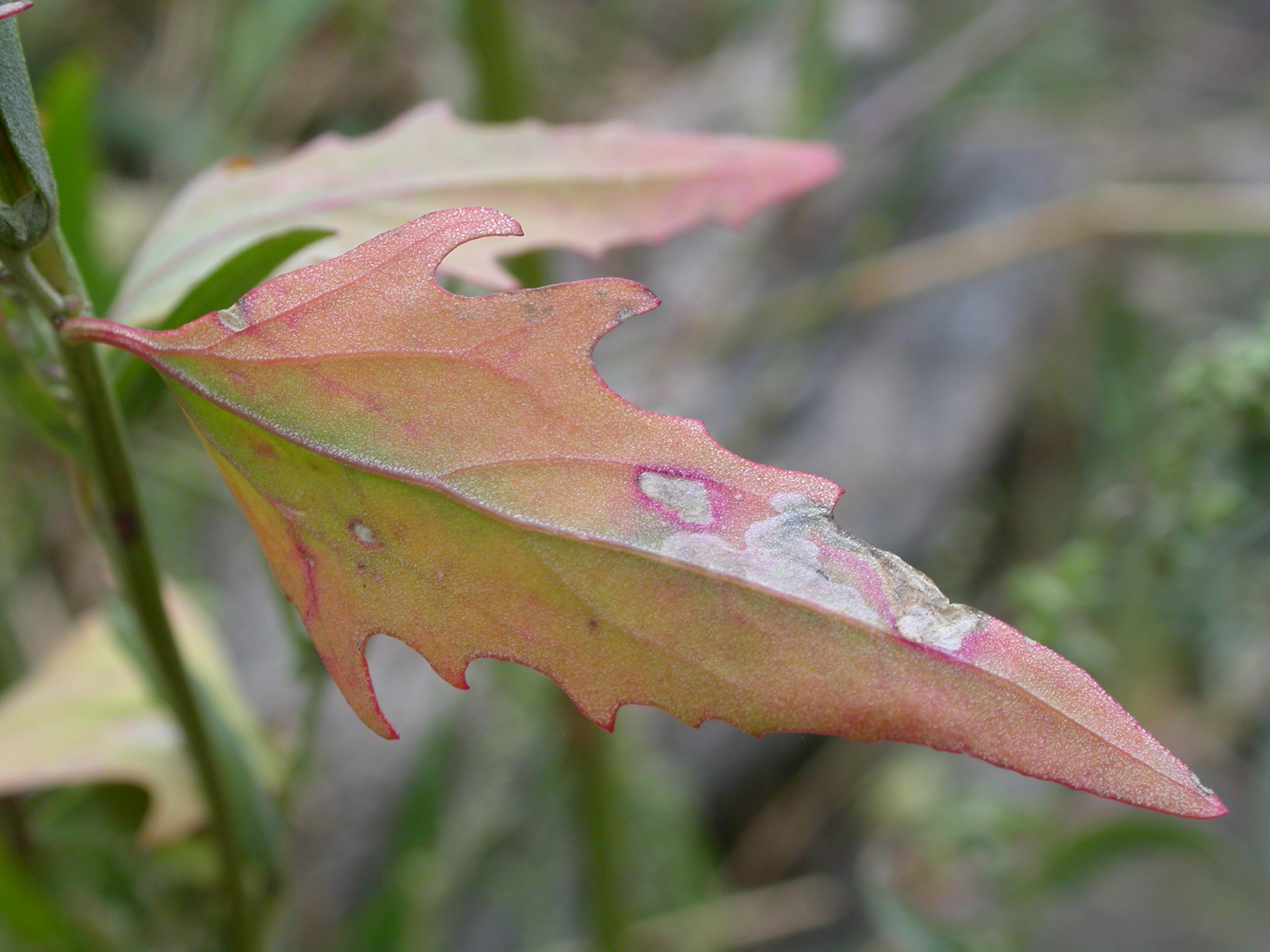 The leaves are spear-shaped with typically with coarsely serrate margins.